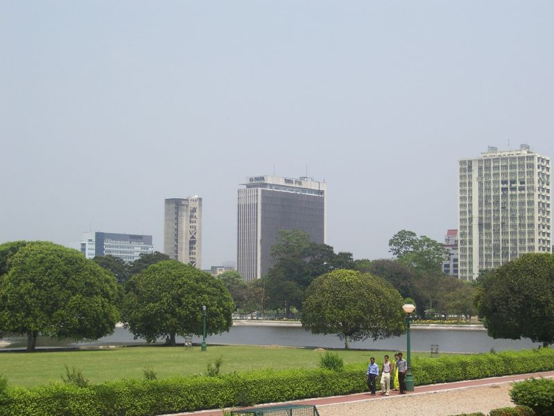 Author: Flickr user: El_Chico_438 Author has allowed the image to be uploaded onto Wiki under the creative commons sharealike attribution license as shown in the comments section. Uploaded to Wiki by user: Nikkul kolkata the city of culture